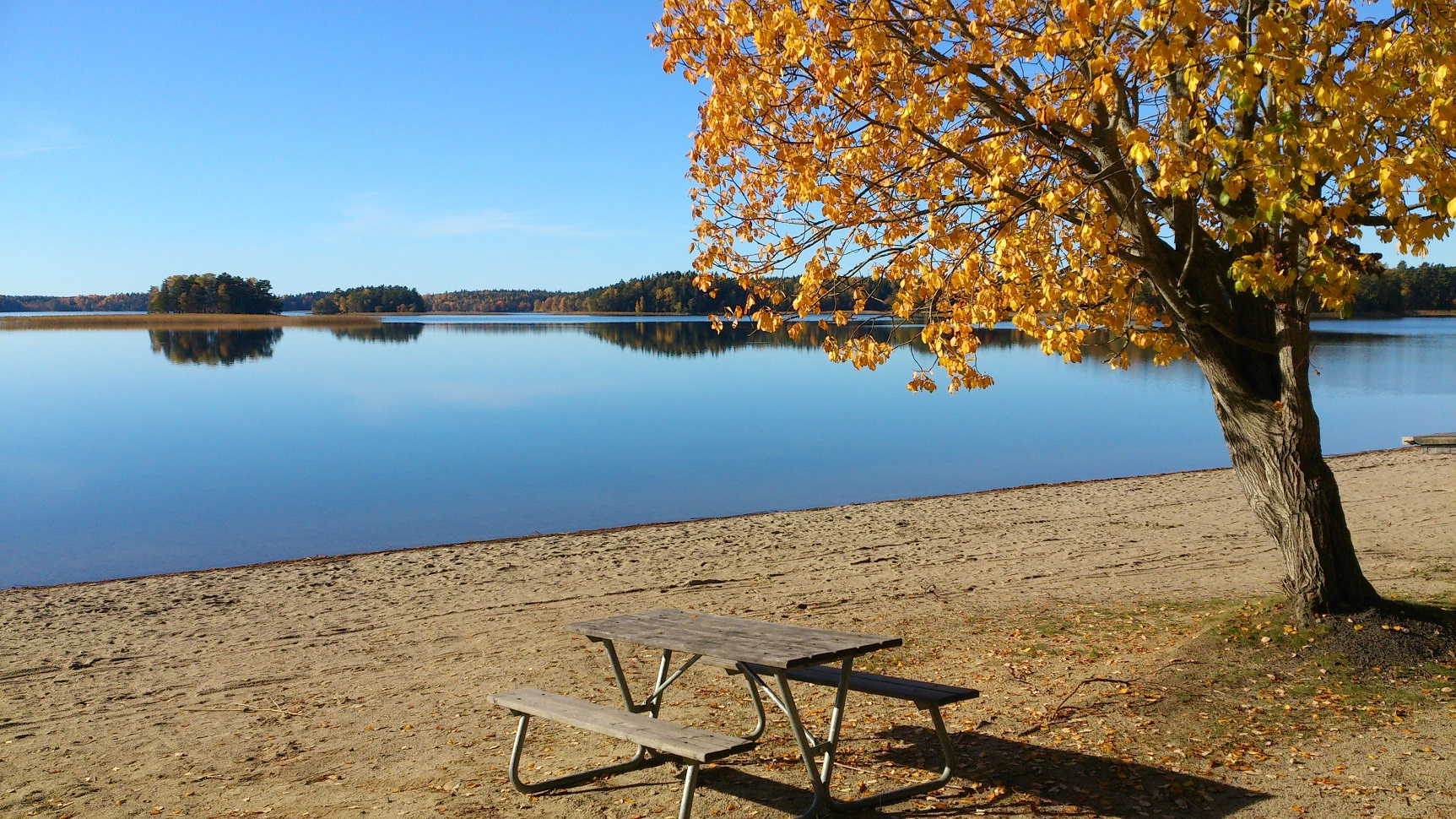 Yngern lake in Nykvarn Municipality, Sweden.